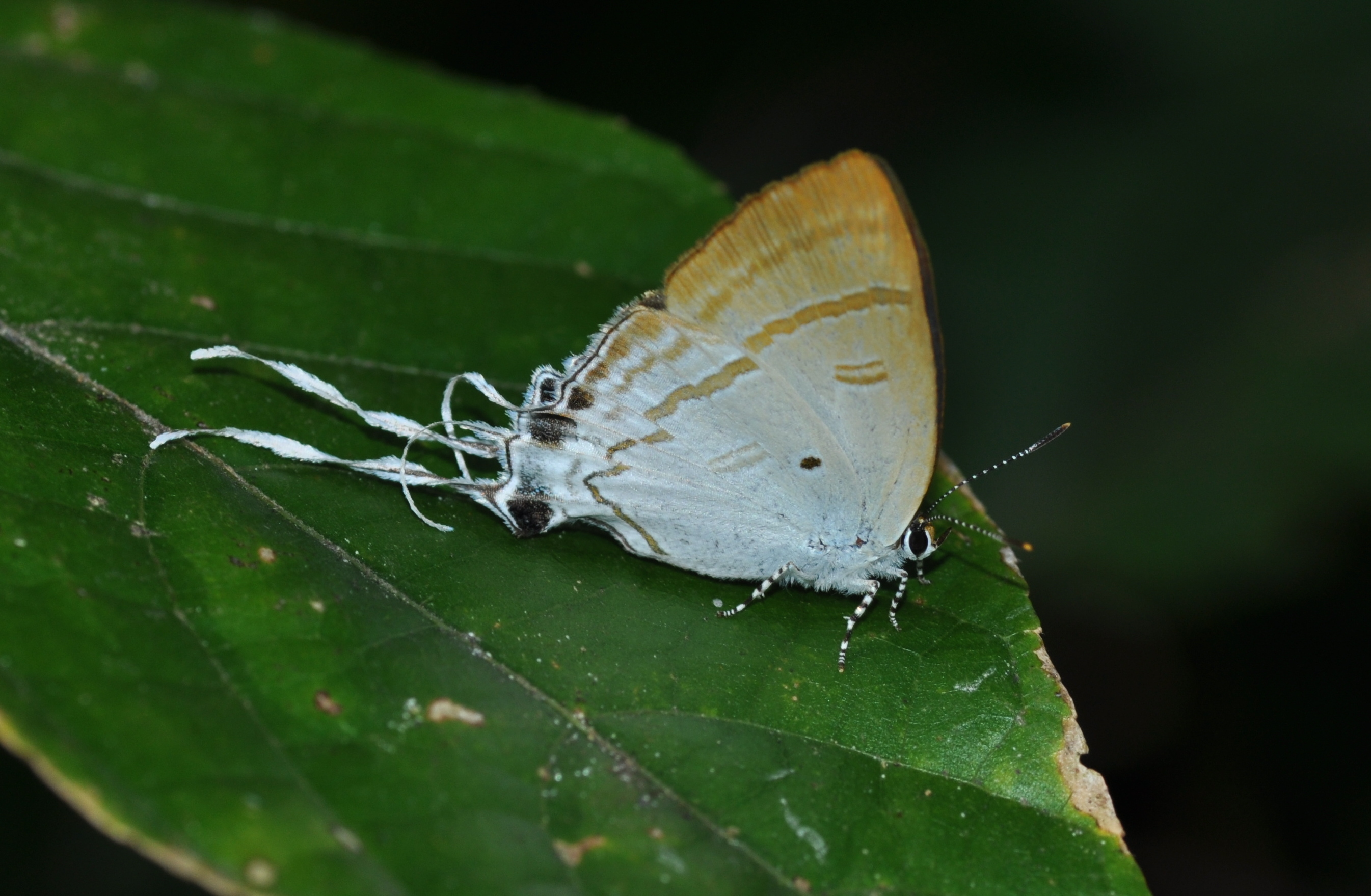 This picture was taken during the project Wiki Loves Butterfly in Buxa Tiger Reserve, Alipurduar,West Bengal, India.Close wing position of Zeltus amasa Hewitson, 1865 – Fluffy Tit